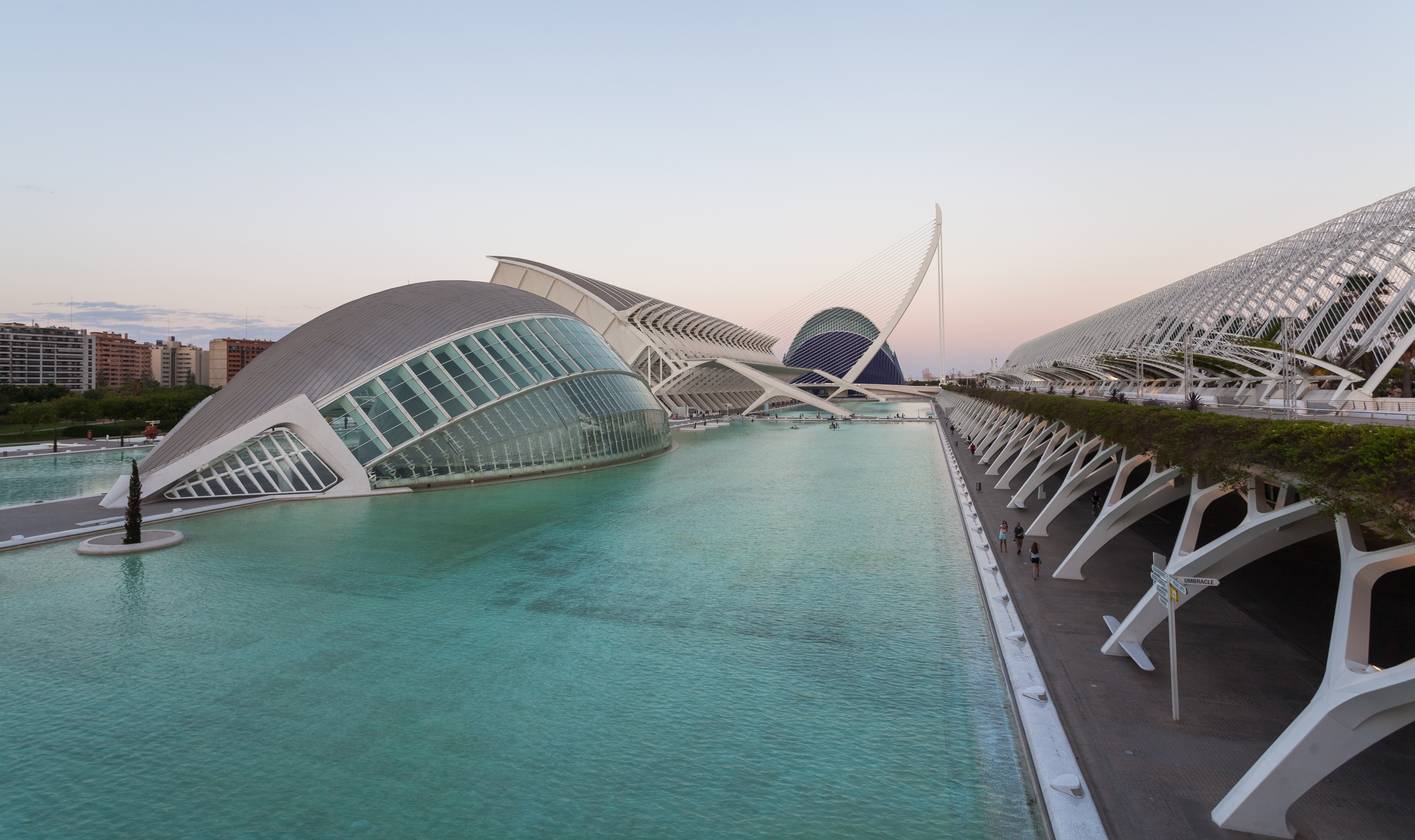 City of Arts and Sciences, Valencia, Spain